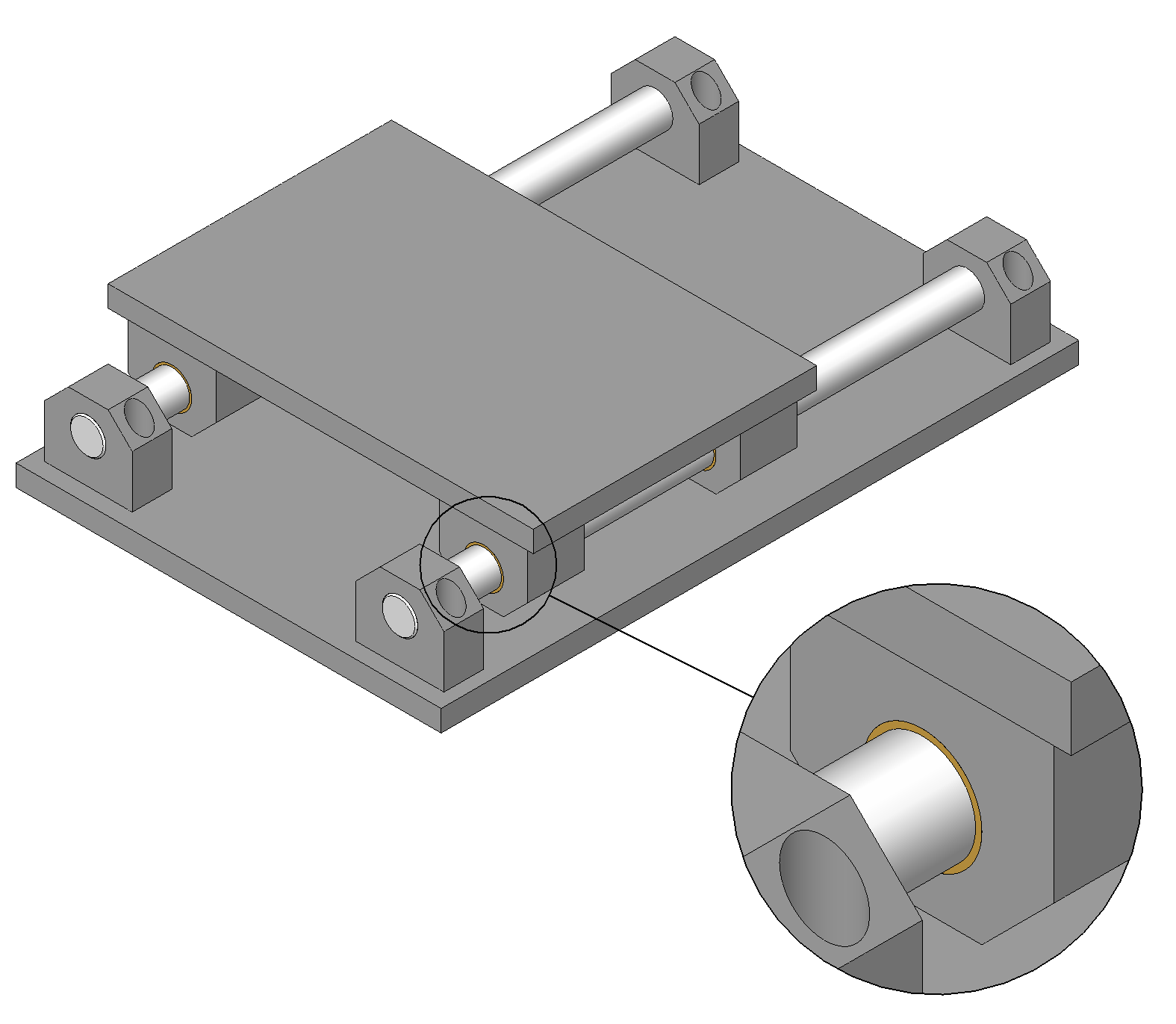 simplified linear table with round guide and guide bushing.